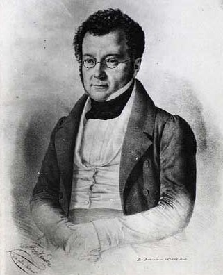 Christian Georg Nathan David (1793-1874), Finance Minister of Denmark, Director of the National Bank of Denmark